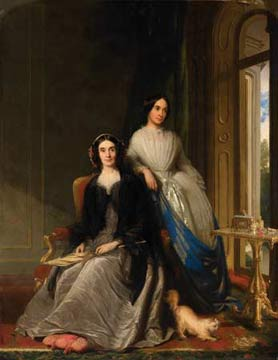 Emma Durning Holt, 35 year-old wife of Liverpool cotton-broker and merchant George Holt, together with Anne Holt, their daughter. Oil on canvas, ca. 1856, by Philip Westcott